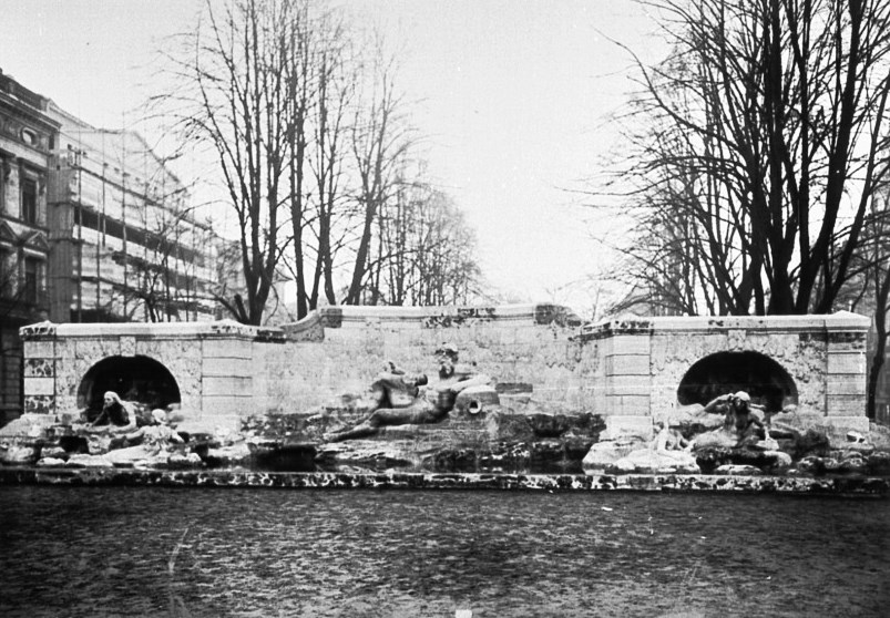 Kaiser-Wilhelm-Ring - Vater-Rhein-Brunnen (1922)